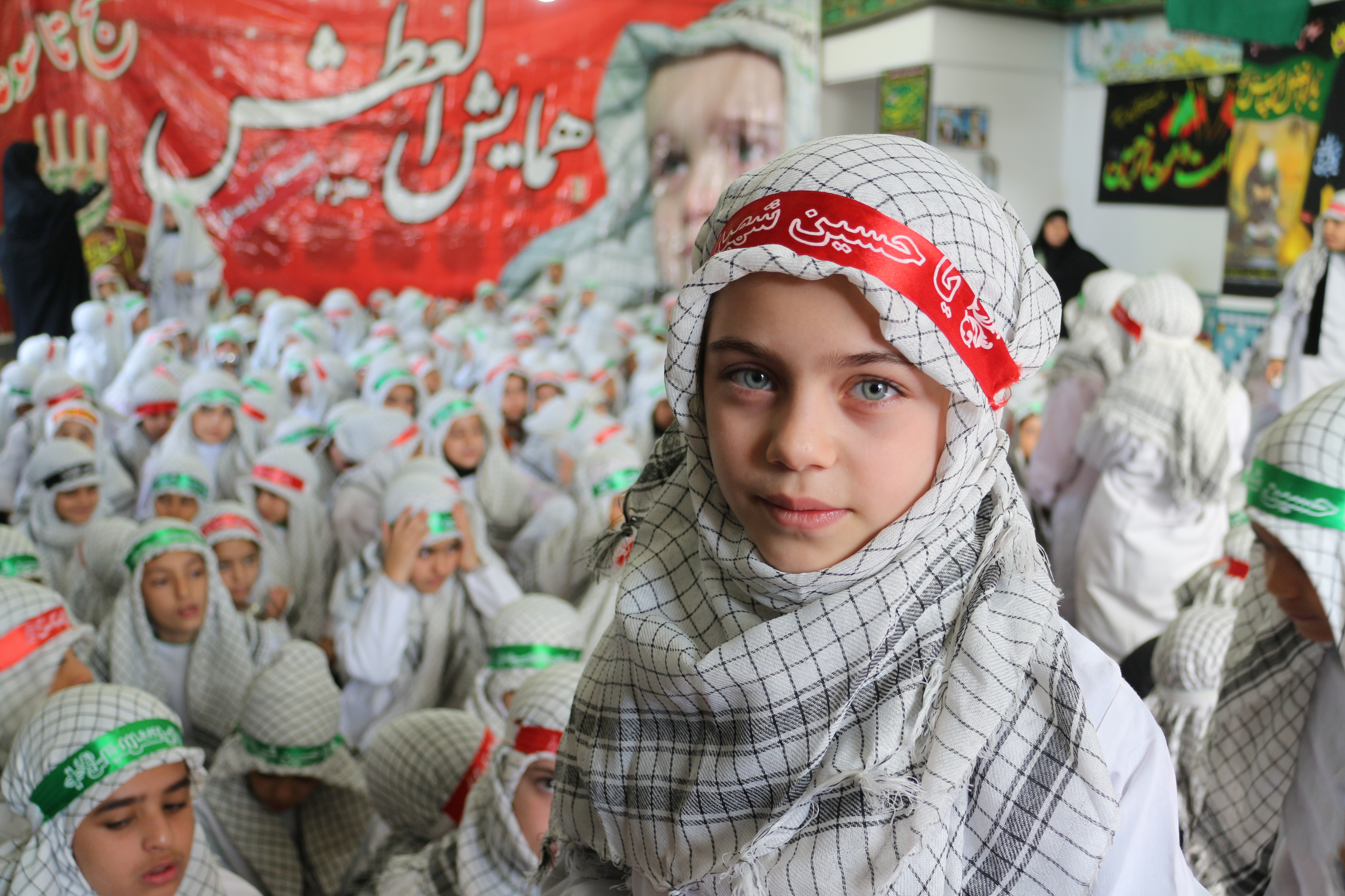 Iranian children wearing Keffiyeh in a shia ritual for remembrance of Ali al-Asghar ibn Husayn. Mourning of Muharram is held in majority of cities and villages in Iran by Shia Muslims annually. Although all sort of ceremonies are performed for Imam Hossein and his followers martyrdom remembrance, they have different styles and rules referring to various cultures.